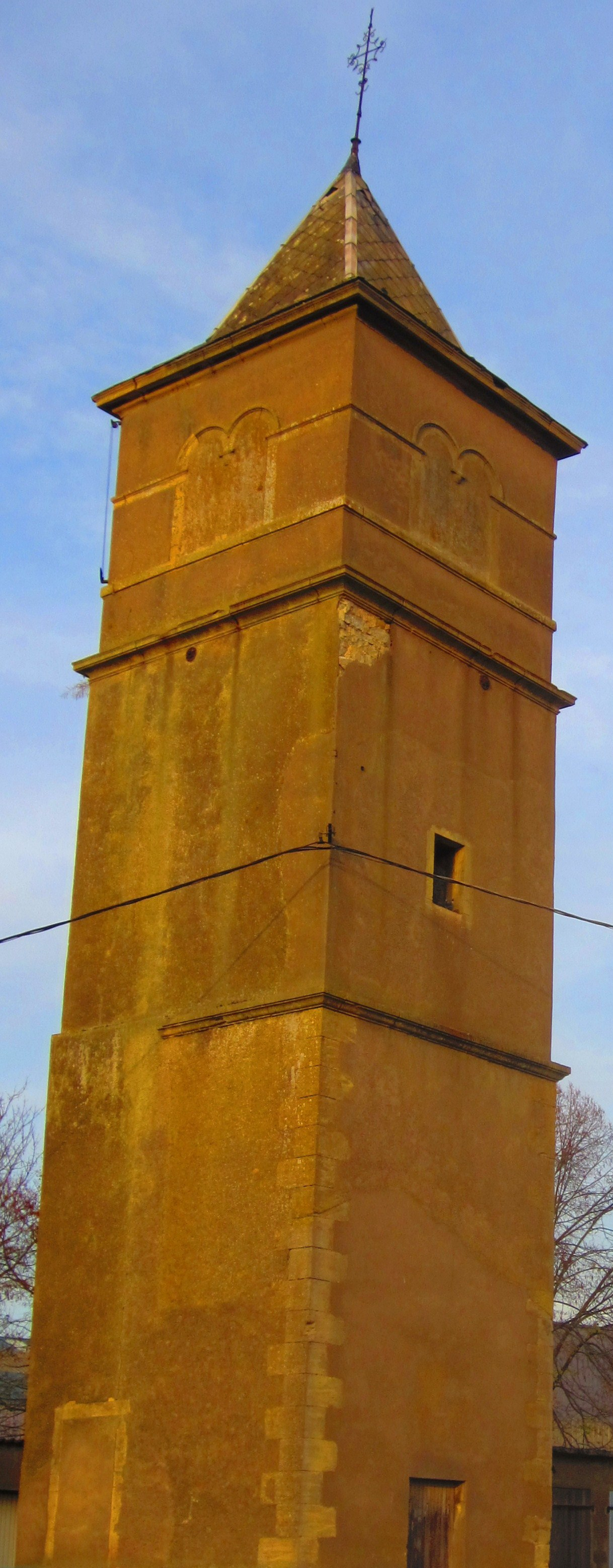 Description ancien clocher Distroff ancien clocher Distroff